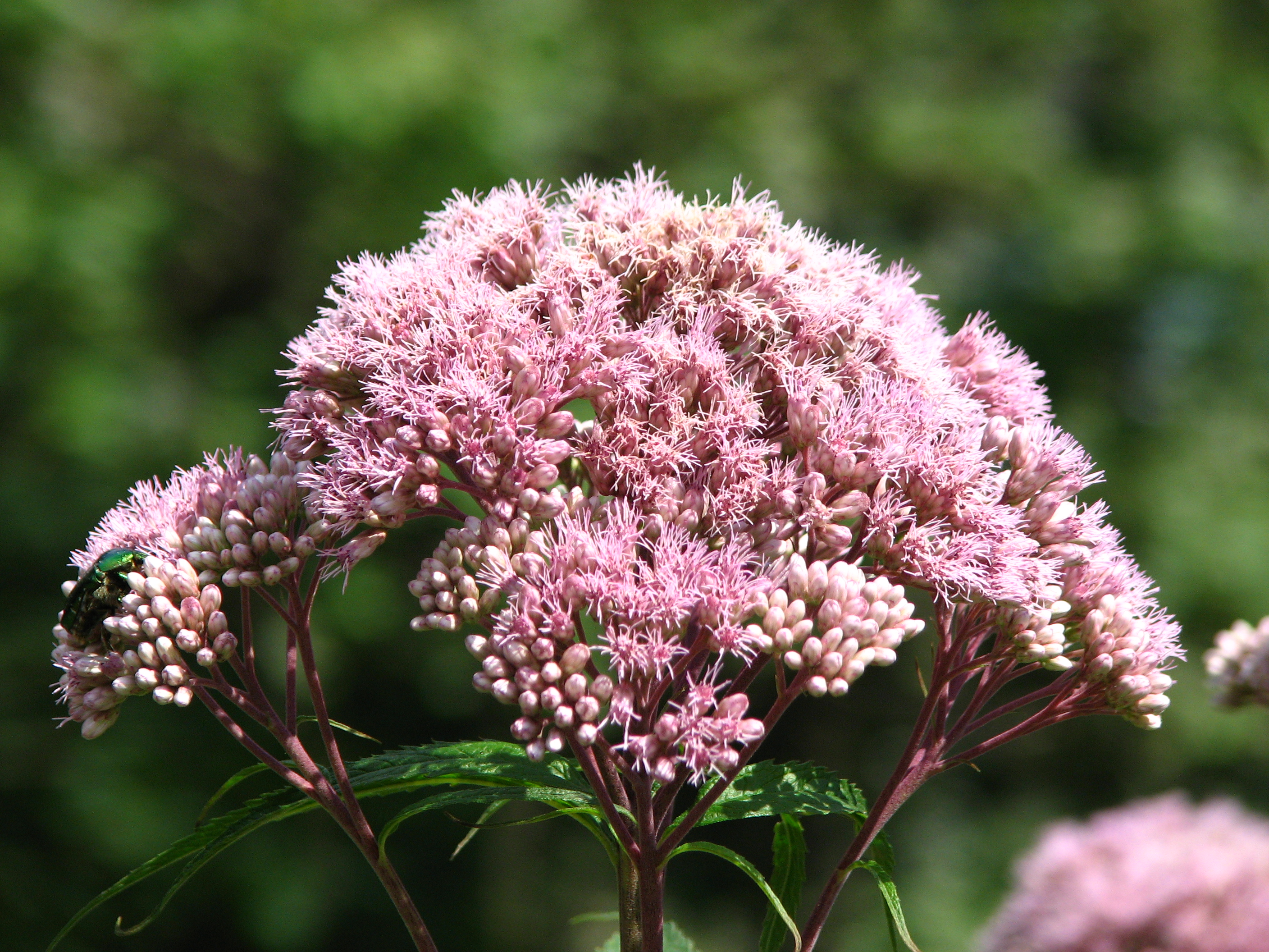 Eutrochium maculatum. From the collection of the Main Botanical Garden of Academy of Sciences in Moscow (perennials plot).